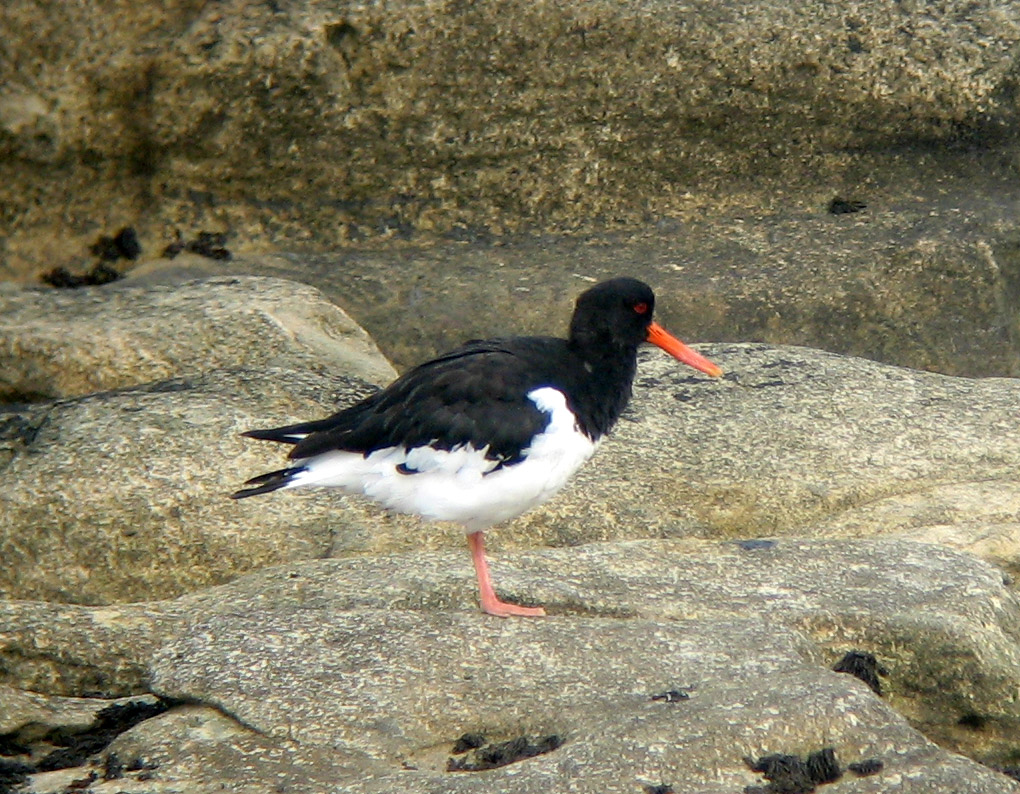 Oystercatcher Haematopus ostralegus, St Mary's Island, Northumberland, UK